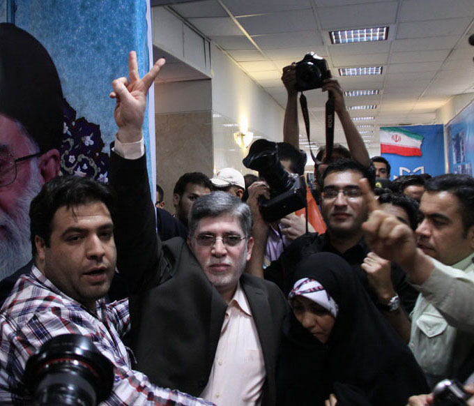 Ali Akbar Javanfekr registered his candidacy in 2013 Iranian presidential election.